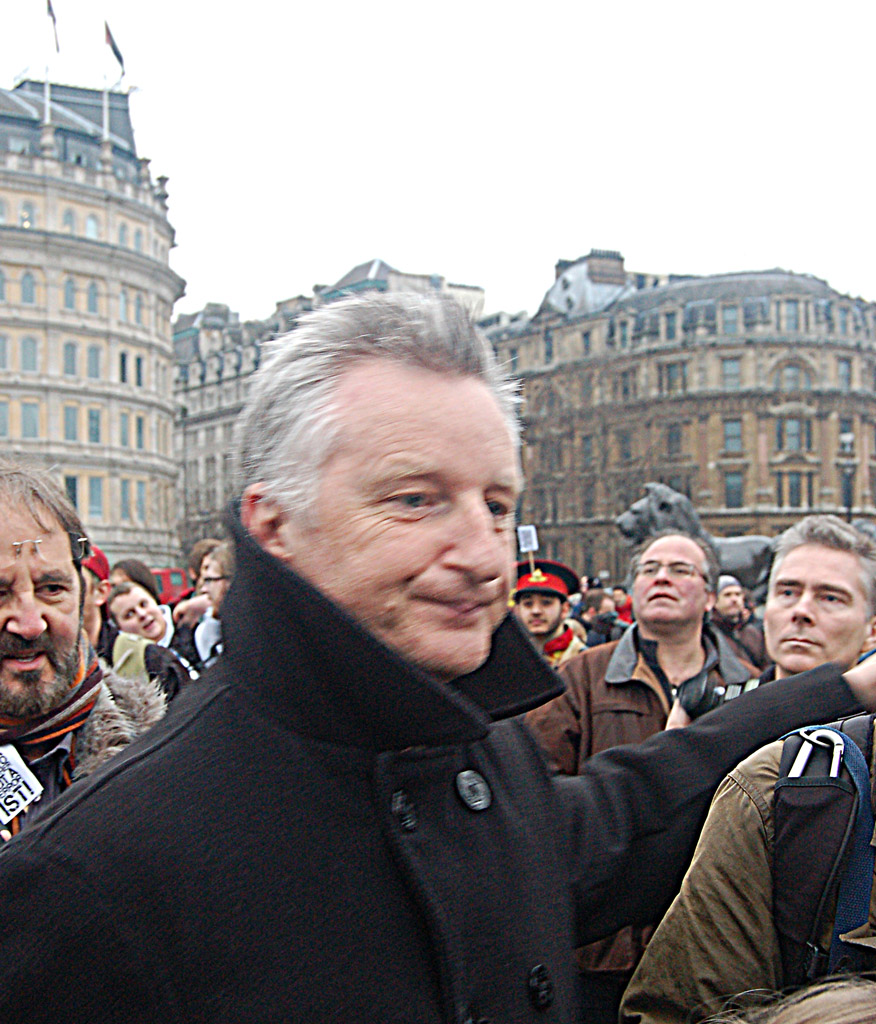 English singer-songwriter Billy Bragg attending a demo in Trafalgar Square, London, England, on 23 January 2010.